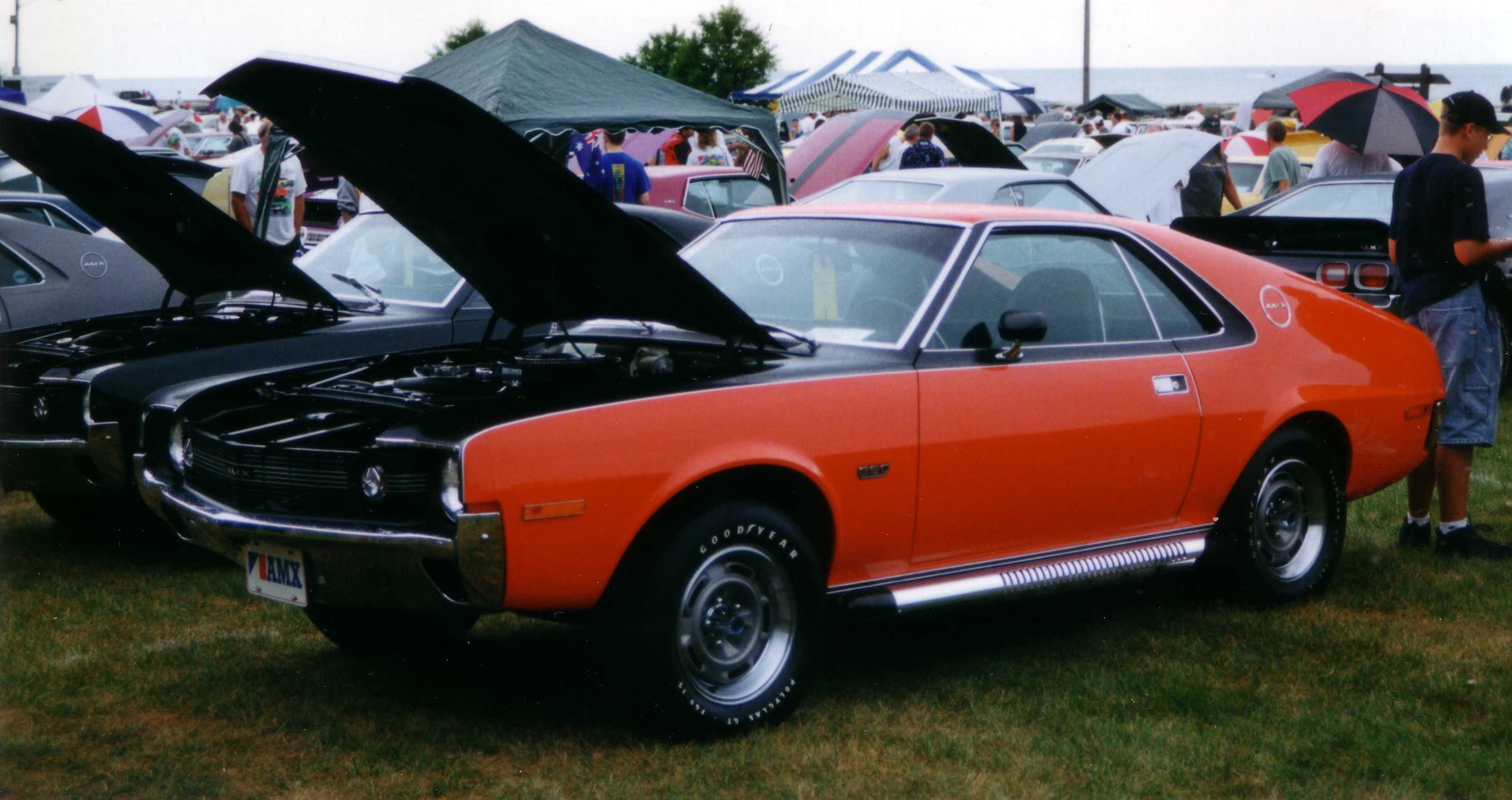 1970 AMC (American Motors Corporation) AMX sports coupe finished in Big Bad Orange (BBO) with the black "shadow mask" option. Factory 390 (6.4 L) "Go Package". This car also has the optional 15-inch "Machine" wheels and side-pipe exhaust system.